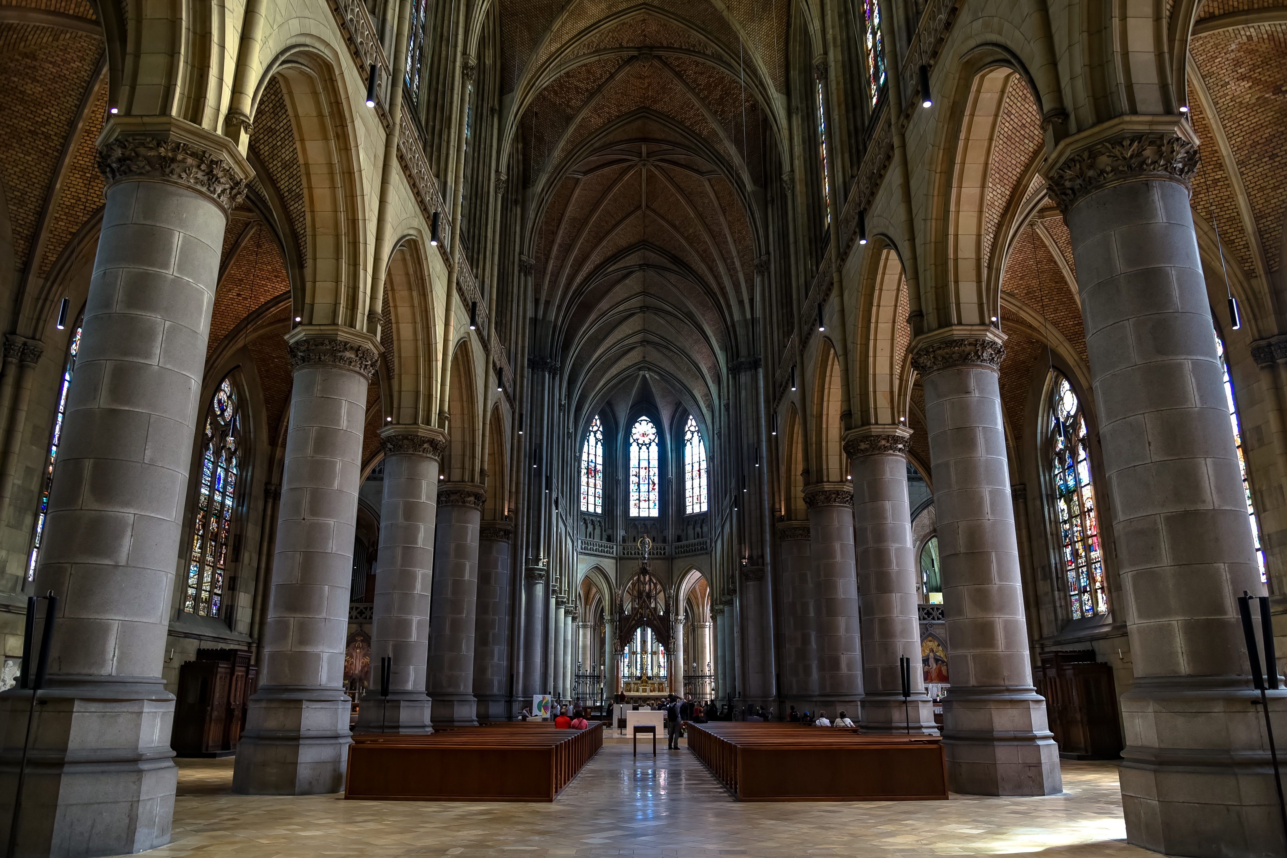 Mariä-Empfängnis-Dom (Linz, Austria)